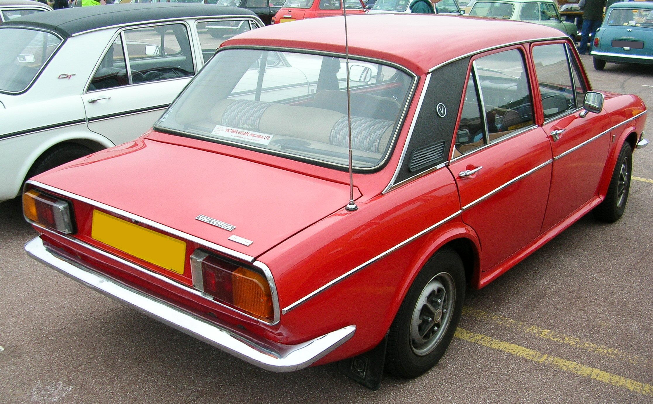 A 1973 Austin Victoria MKII De Luxe. Photographed at the Alec Issigonis centenary rally at the Heritage Motor Centre, Gaydon, UK. The Austin Victoria is, similarly to the Austin Apache, a derivative of the BMC's Austin/Morris/1100. The Victoria was built at the Authi car plant in Pamplona, Spain.